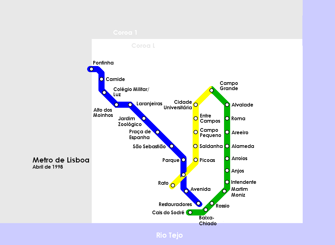 Map of Lisbon Metro in April 1998